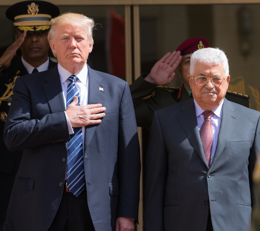 President Donald Trump participates in arrival ceremonies with President Mahmoud Abbas of the Palestinian Authority at the Presidential Palace, Tuesday, May 23, 2017, in Bethlehem. (Official White House Photo by Shealah Craighead)